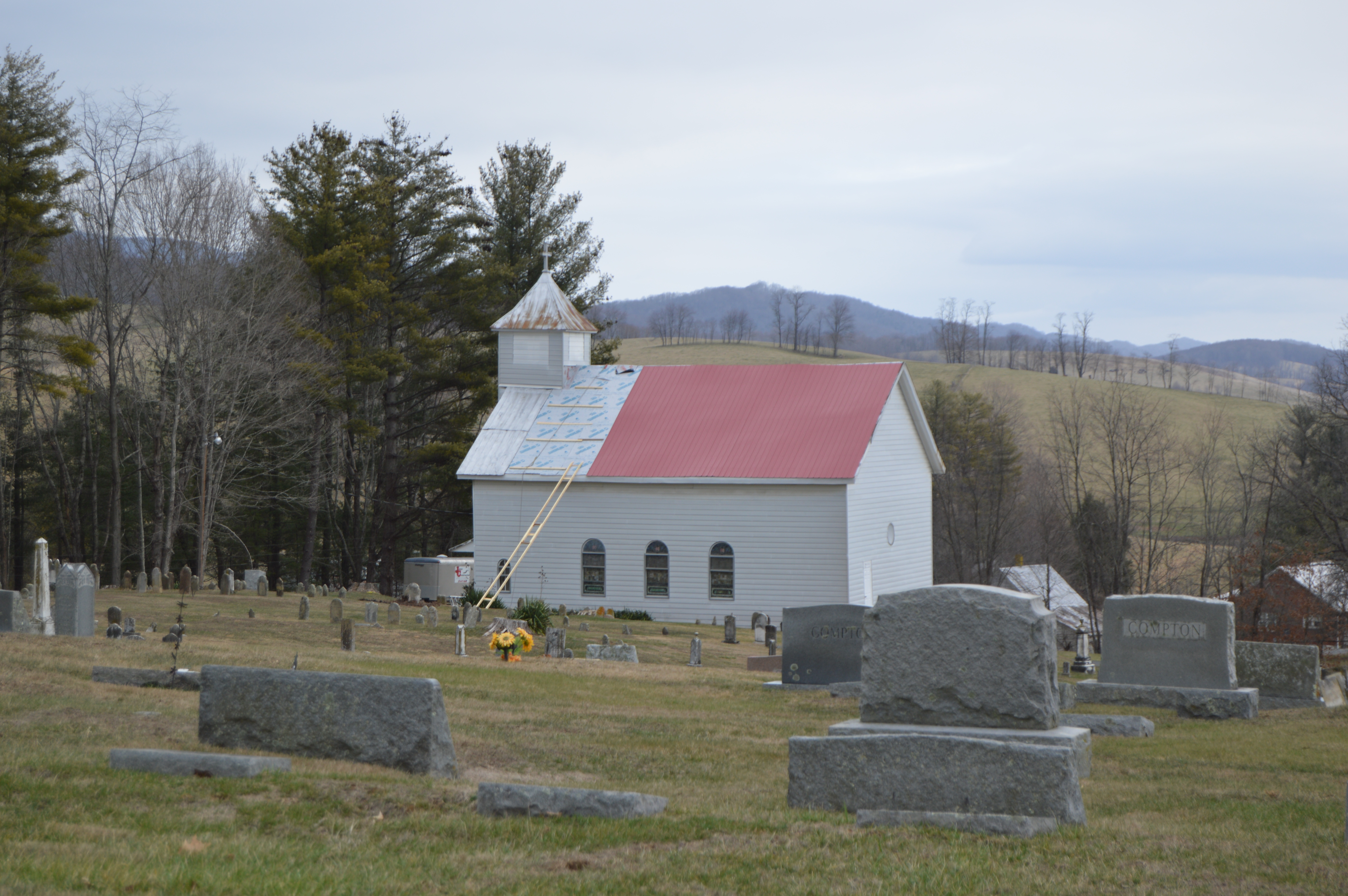 Distant view from the west of Sharon Lutheran Church, located on State Route 42 west of Ceres in Bland County, Virginia, United States. Built in 1912, it is listed on the National Register of Historic Places.